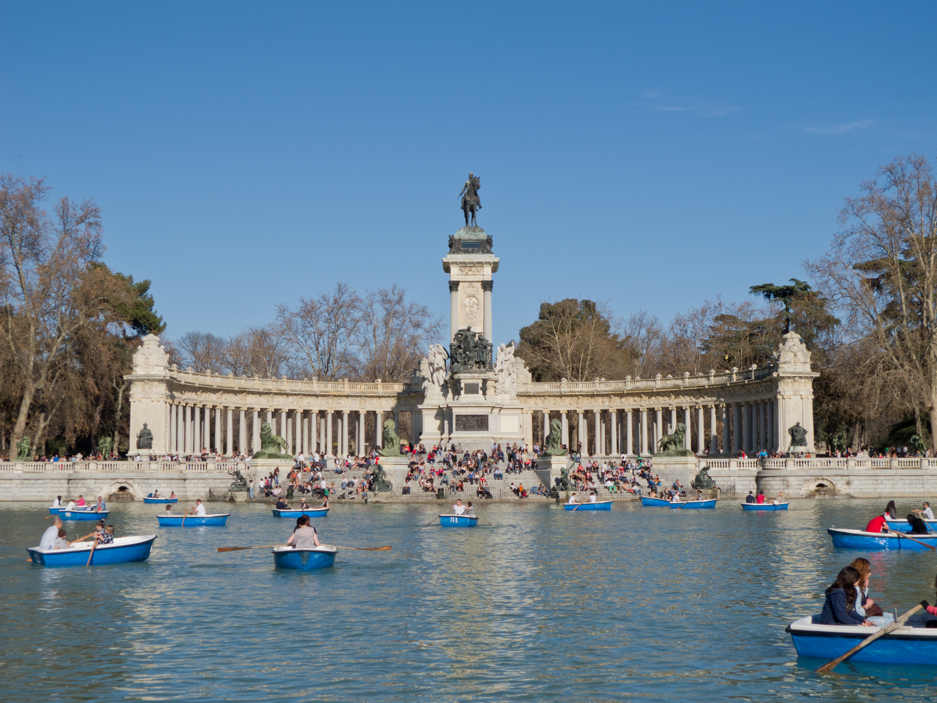 Monument to Alfonso XII in Buen Retiro Park, Madrid, Spain.